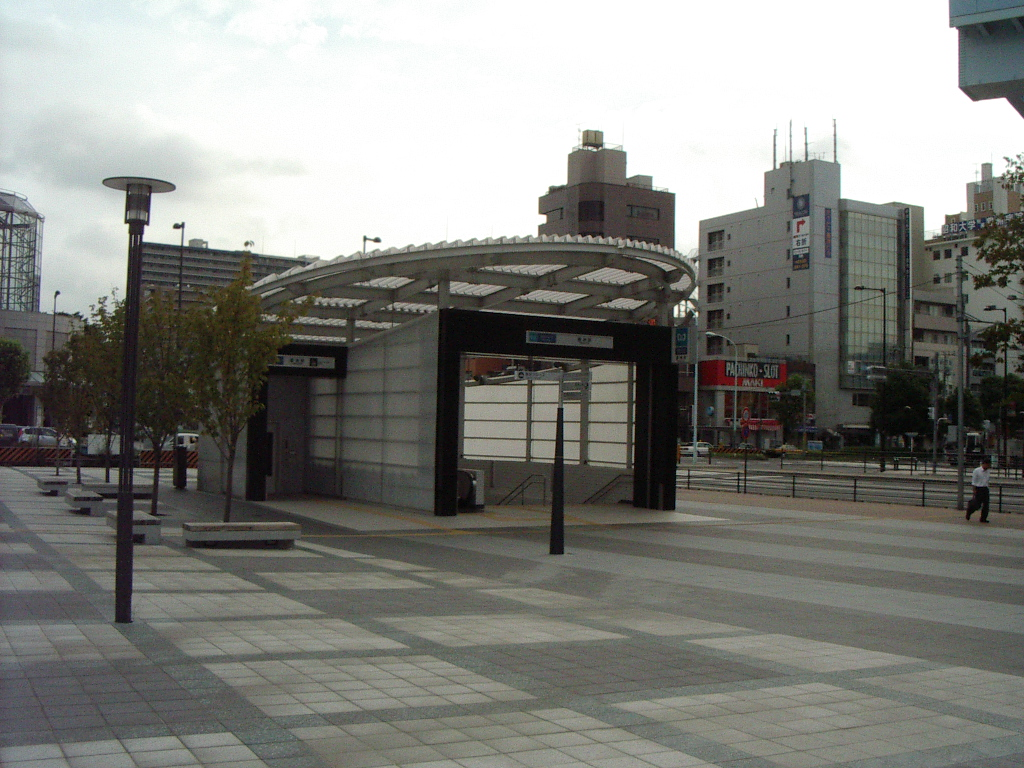 Toyosu station at Tokyo-Metro Yuurakucho-line.